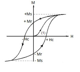 hysteresis 2